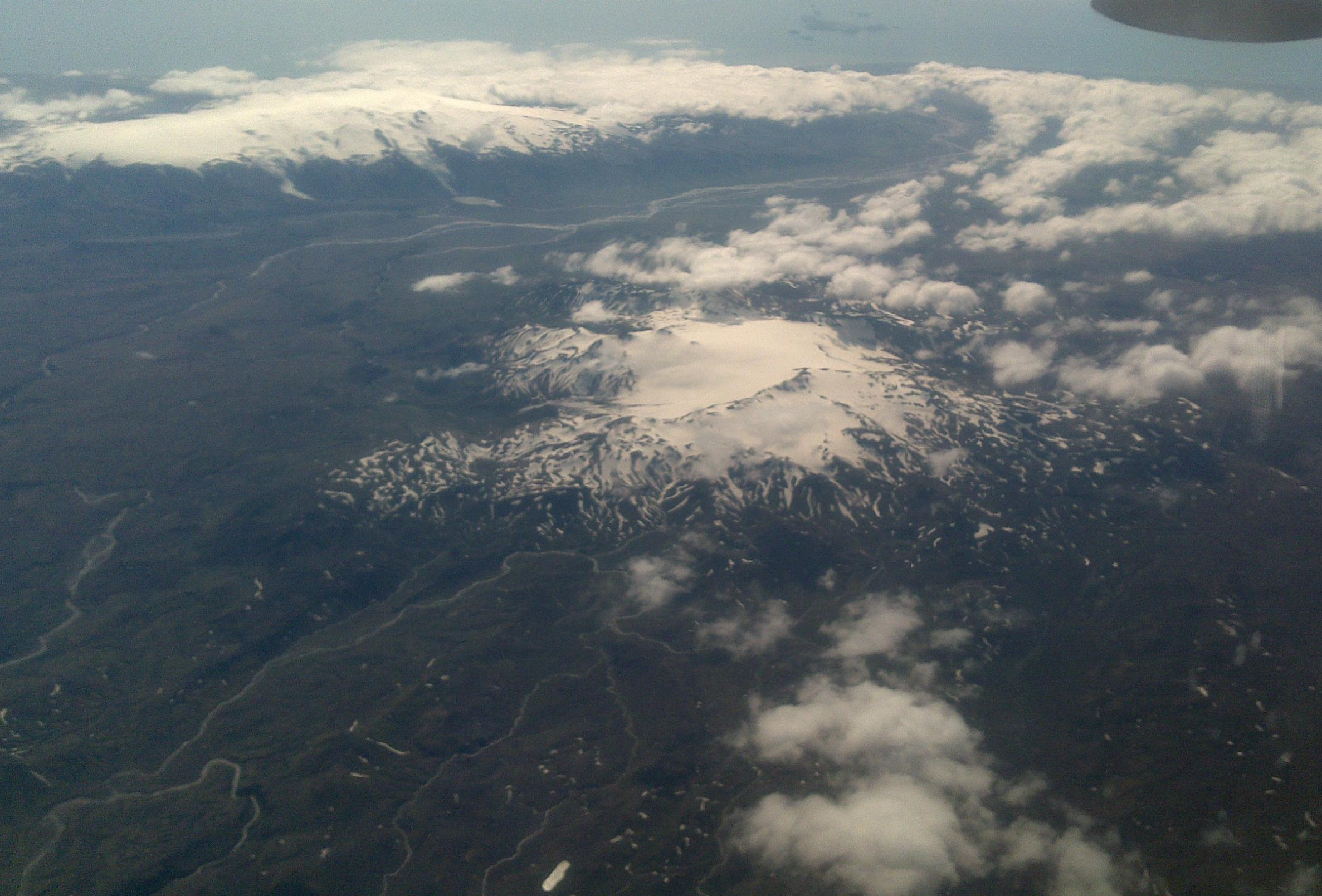 Tindfjallajökull, southern Iceland, seen from north. Left is Eyafjallajökull and in the extreme background, Vestmannaeyja is barely visible in the sea.